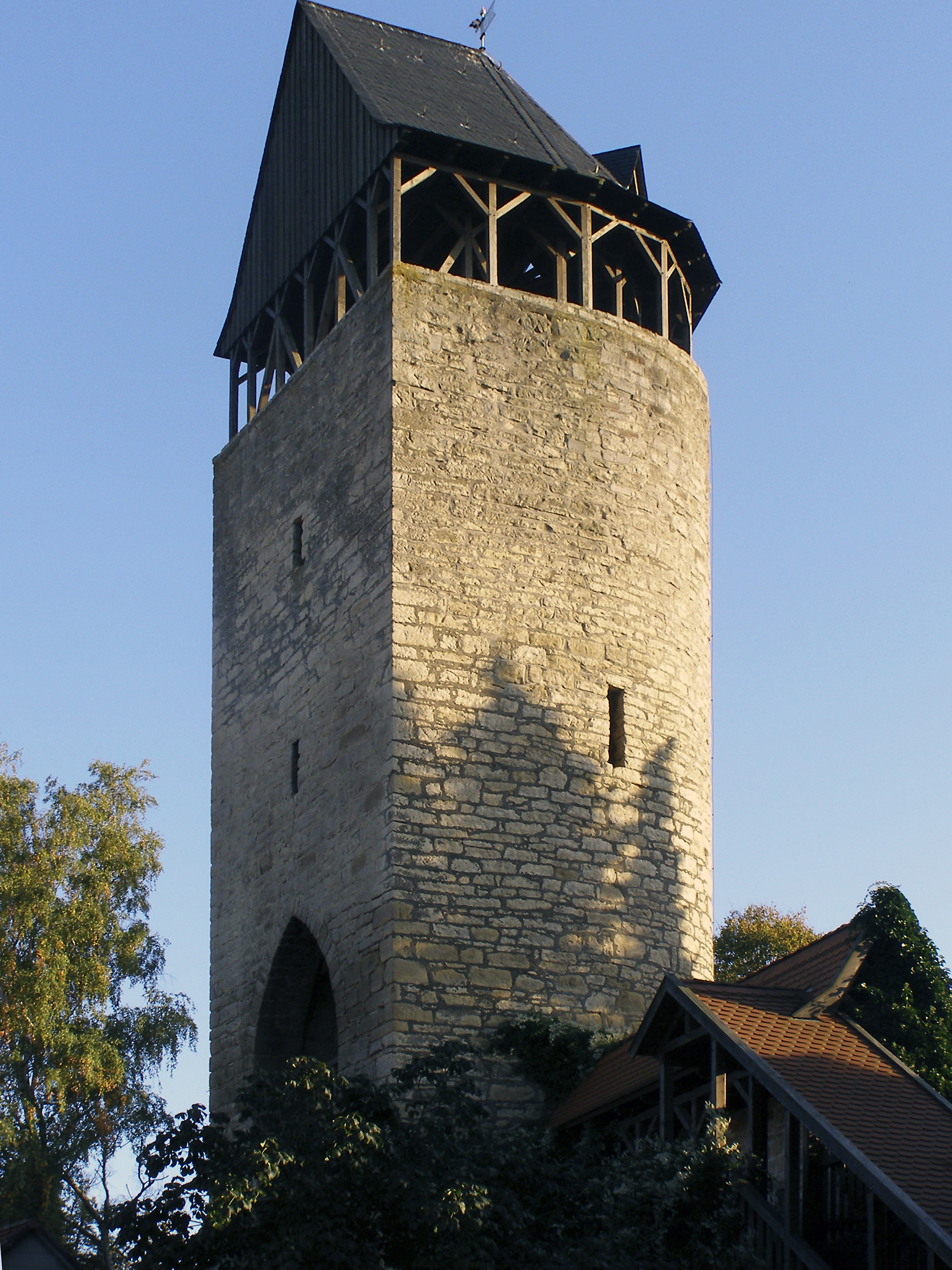 Tylenturm (Tylentower) at Korbach/Hassia Germany